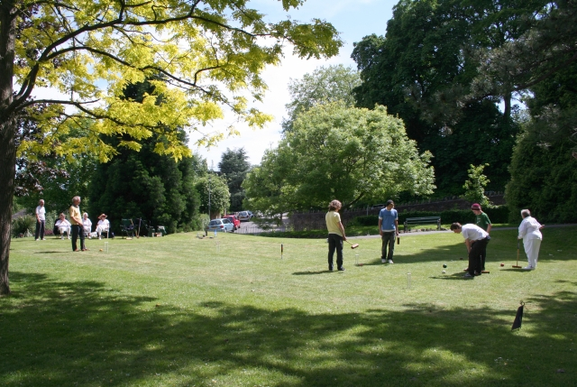 Priory Park - Elgar's 150th Birthday Party Croquet being played on the flat ground next to the theatre complex. The end of Orchard Road can be seen in the distance.